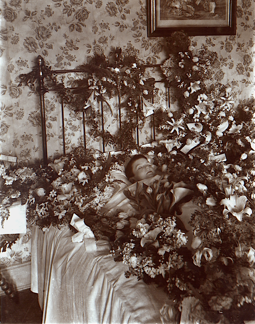 Post-mortem photograph of young child on a bed surrounded by flowers. Nineteenth-century photograph, on whole plate glass negative, modern print (by Justin Cormack) on printing-out paper, gold toned.